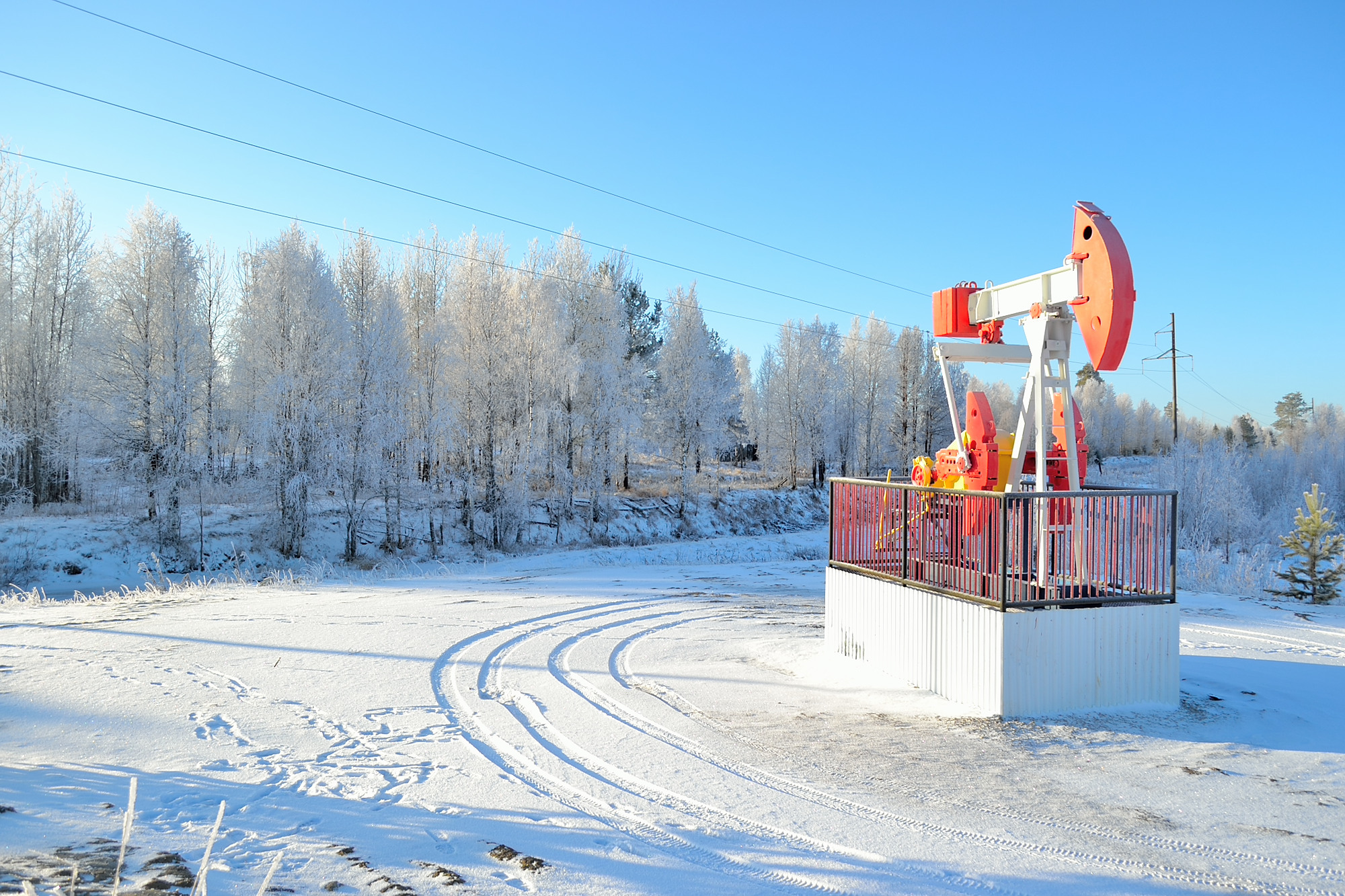 Nizhniy Odes, Komi Republits, Russia, 169523